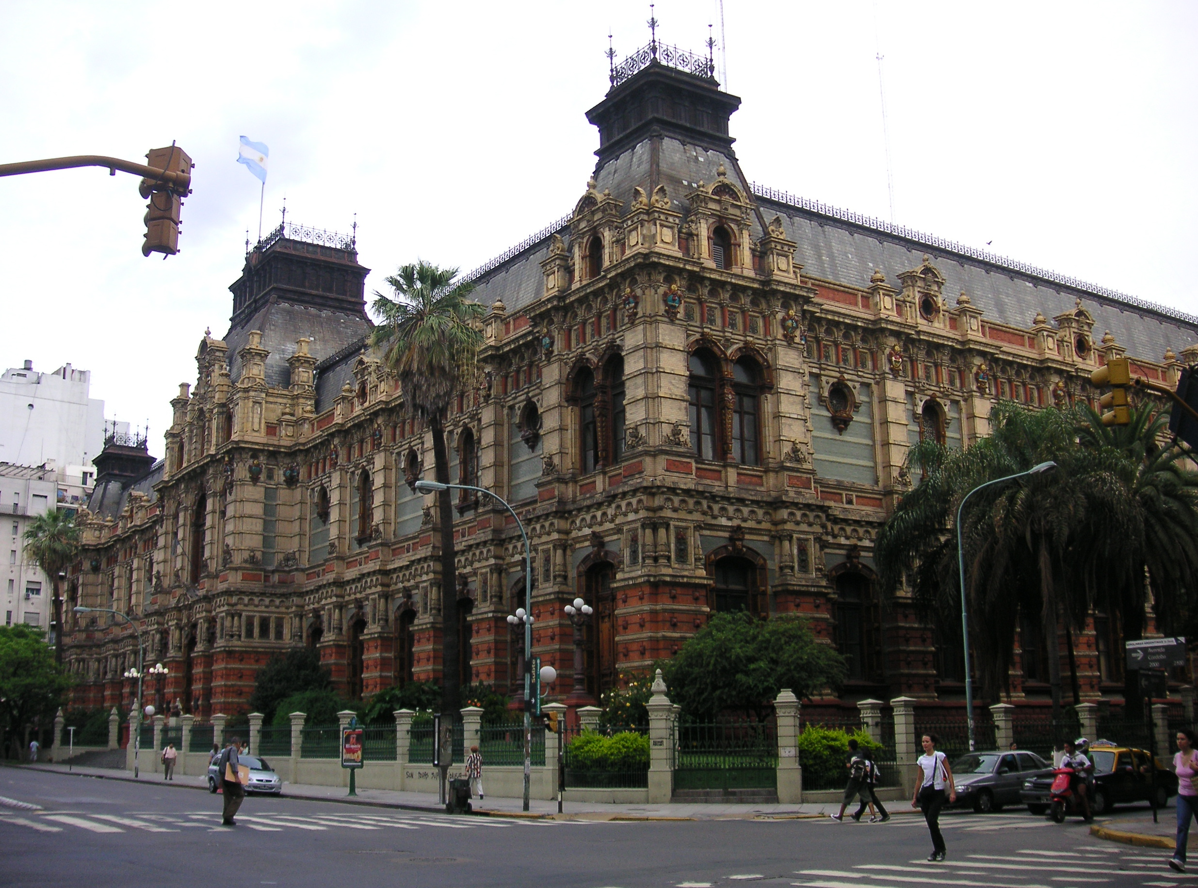 The Water Company Building, Buenos Aires